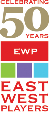 Celebrating 50 years at East West Players